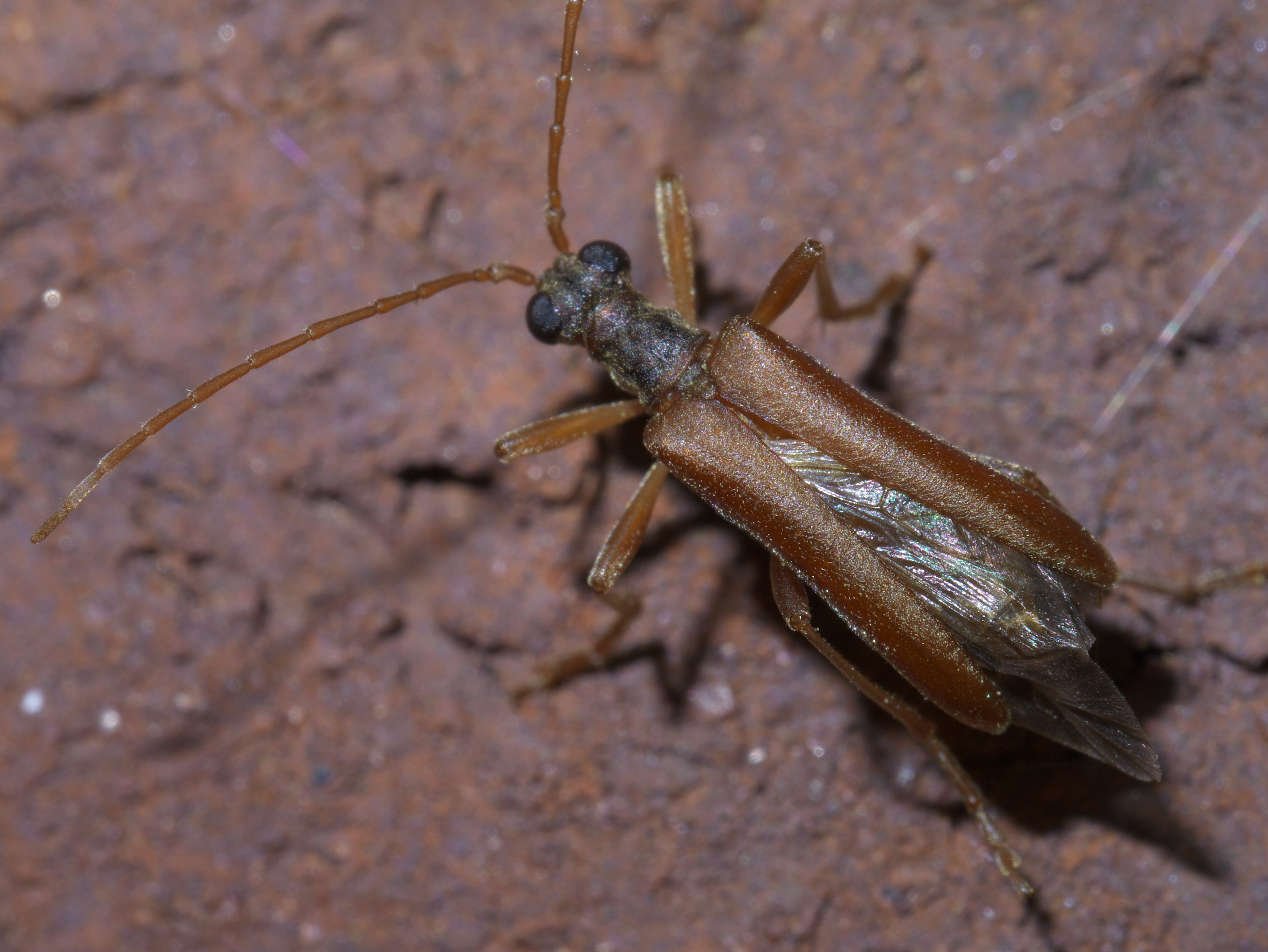 Stenocorus cinnamopterus, Subfamily: Flower Longhorns, Size: 8.8 mm, ID Confidence: 89